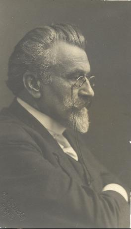 The portrait of Latvian dirigent and composer Ernests Vigners (1850—1933)